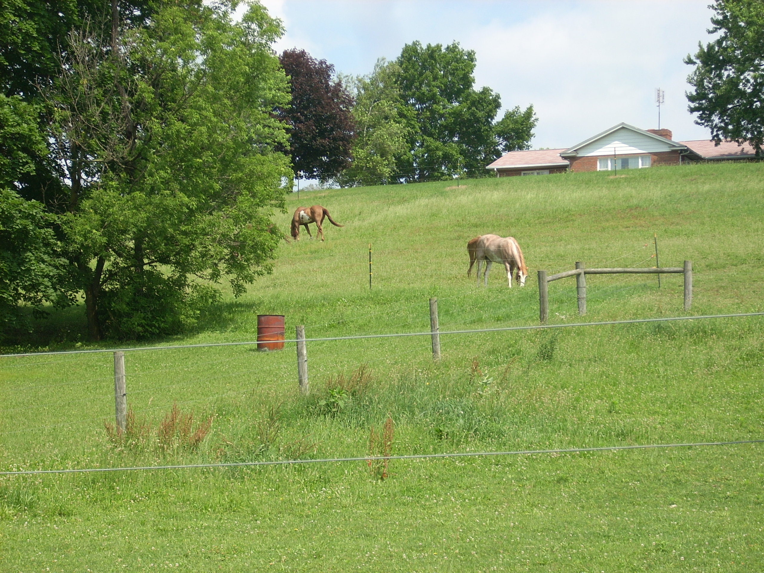 A Porter Township horse pasture